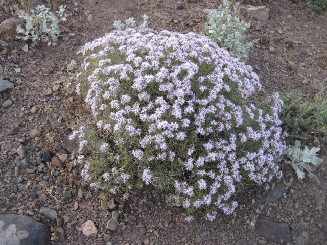 Flora of Iran. Acanthophyllum sordidum?